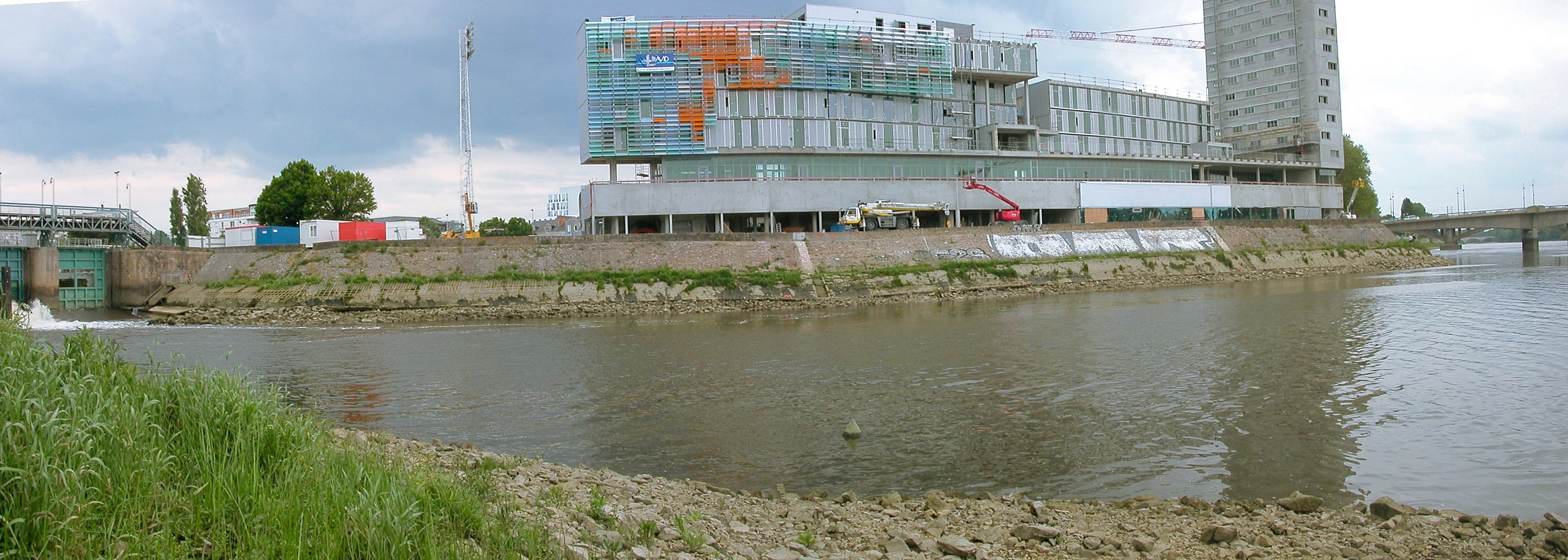 Confluence between Erdre and the Loire River in Nantes